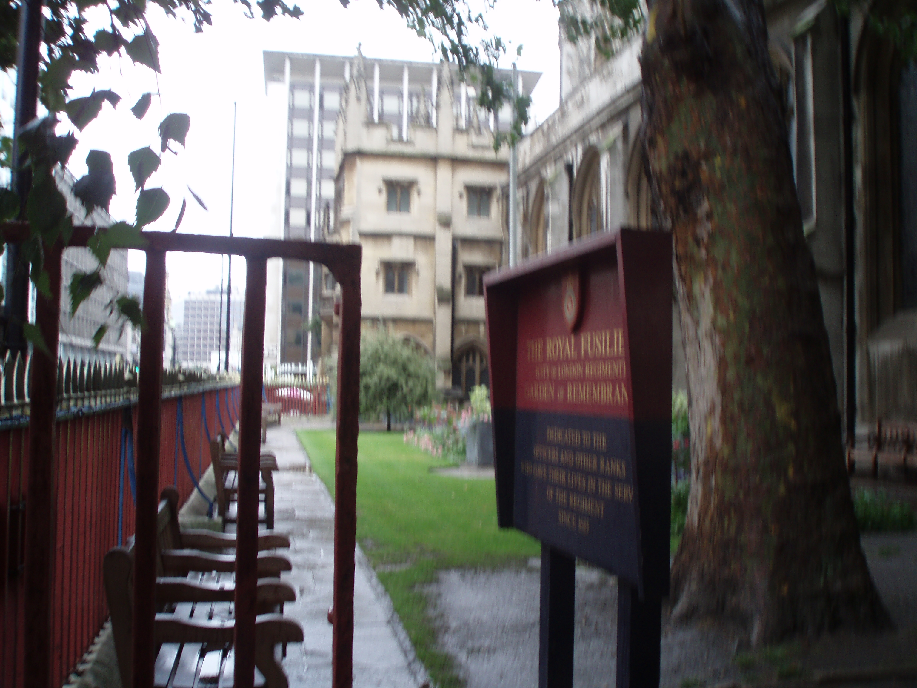 Photo taken 23rd August,2007